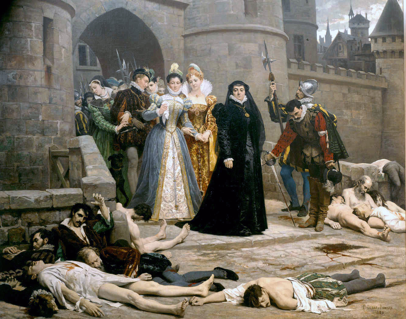 Catherine de Medici gazing at Protestants massacred in the aftermath of the massacre of St. Bartholomew.